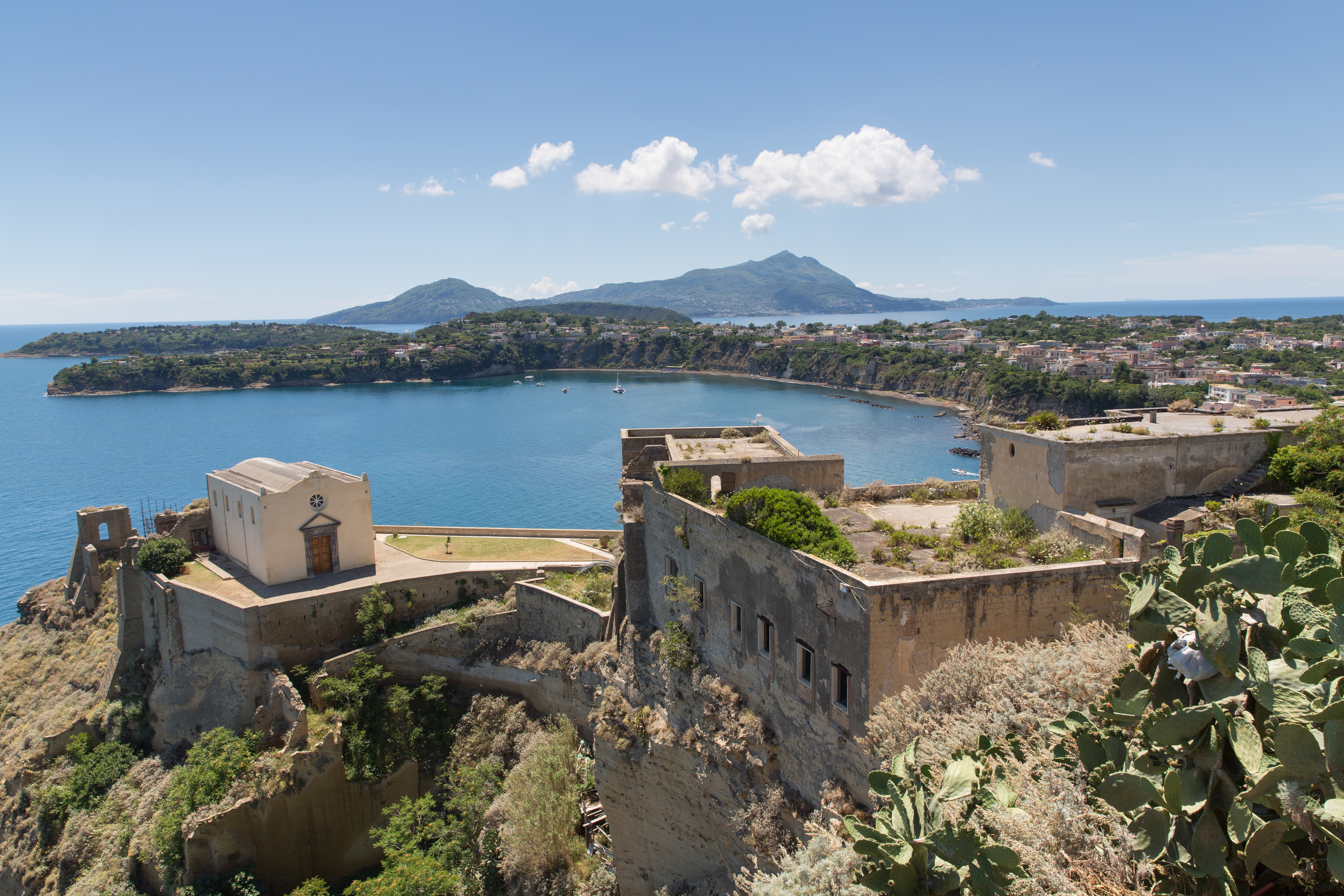 View from Terra Murata in Procida